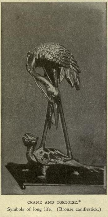 "Crane and tortoise, Symbols of long life (Bronze candlestick)". The footnote says, "The tortoise drags along the moss that has grown on its back"